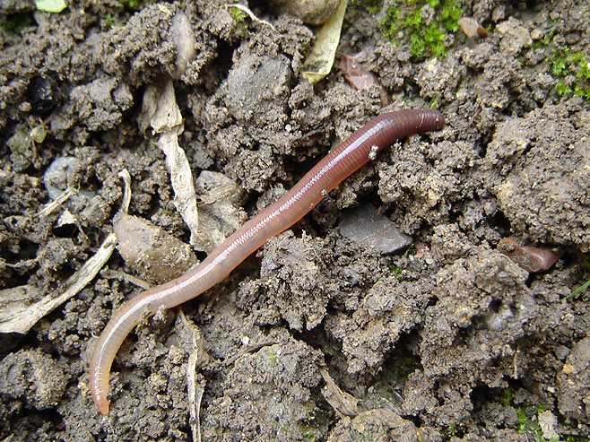 Earthworm (probably a Lumbricus rubellus; definitely a Lumbricus) in humous surface soil in the eathernmost part of Slavonia